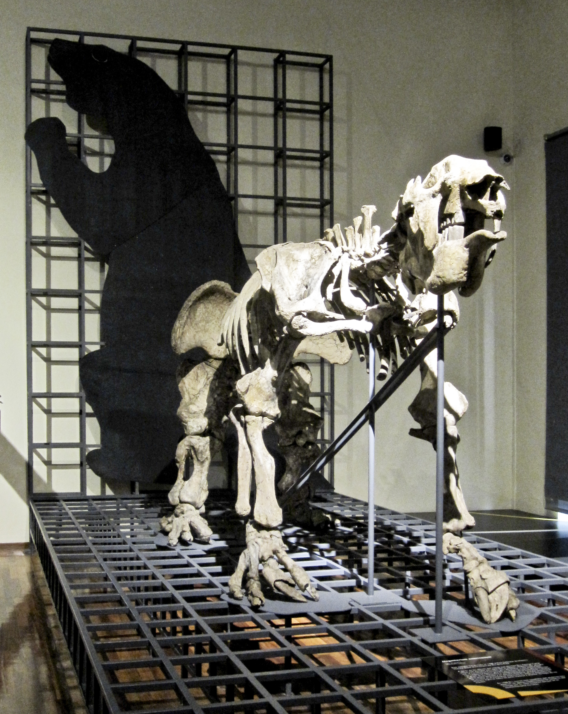 Megatherium americanum, Museo Nacional de Ciencias Naturales (Spain). Brought to Madrid from Argentine in 1789.